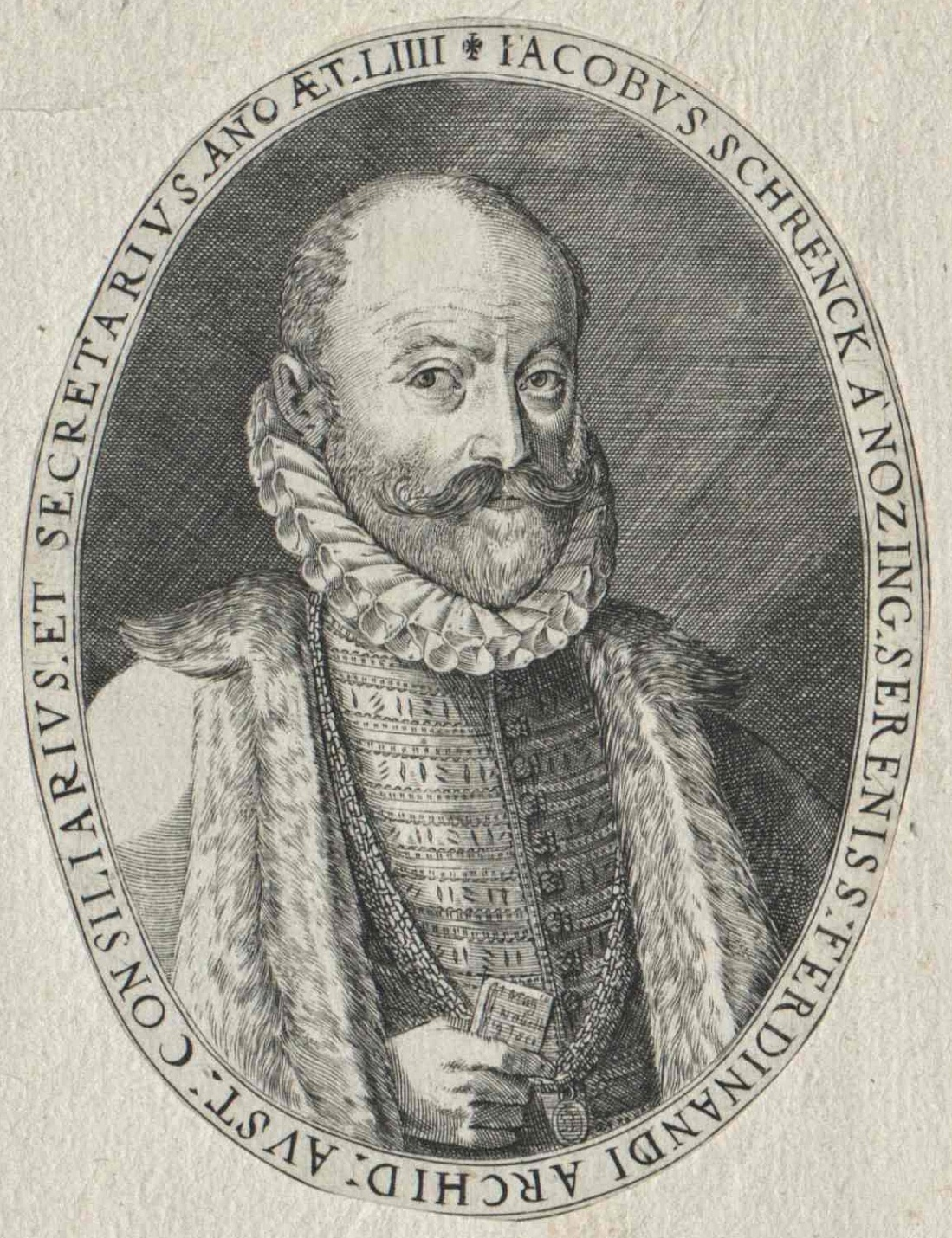 Jakob Schrenck von Notzing (1539-1612), bayerischer Adeliger im Dienste von Herzog Ferdinand II. von Tirol, Historiker